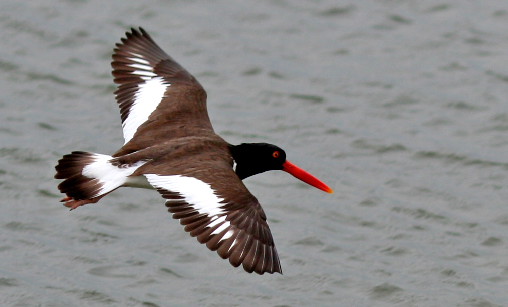 An American Oystercatcher (Haematopus palliatus) in mid-flight, at the Gulf of Mexico in Western Florida.